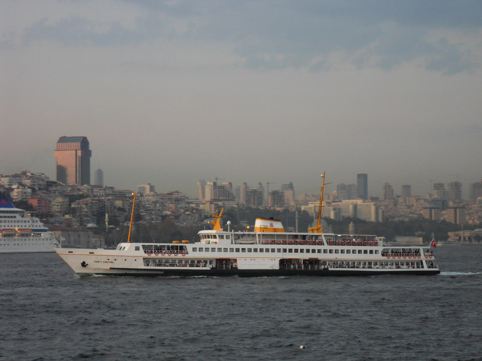 Fahri Korutürk.